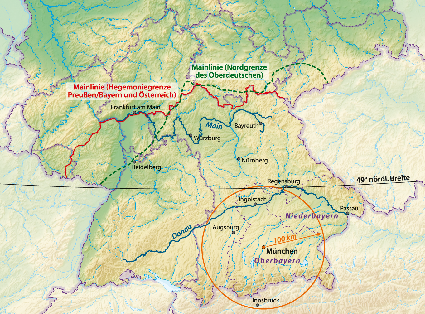 Map of the Weißwurstäquator